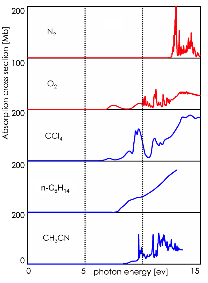 Absorption cross sections of some common gases and LC solvents at APPI and APLI ionization wavelengths, english annotated